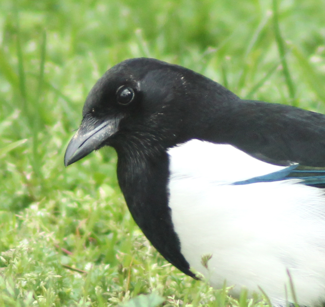 A European Magpie (Pica pica) in Madrid (Spain).